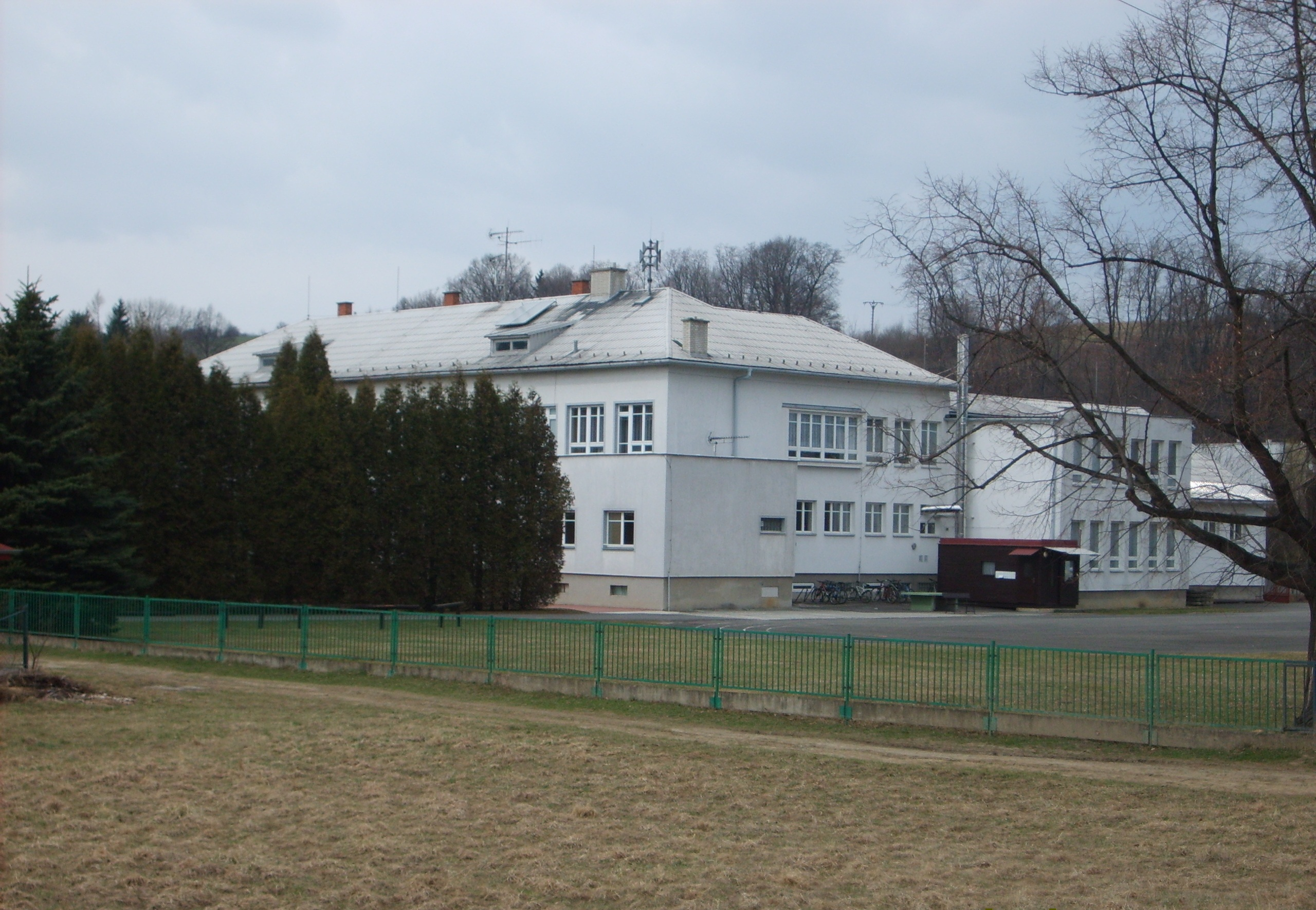 Poličná, Vsetín District, Czech Republic. Elementary school.